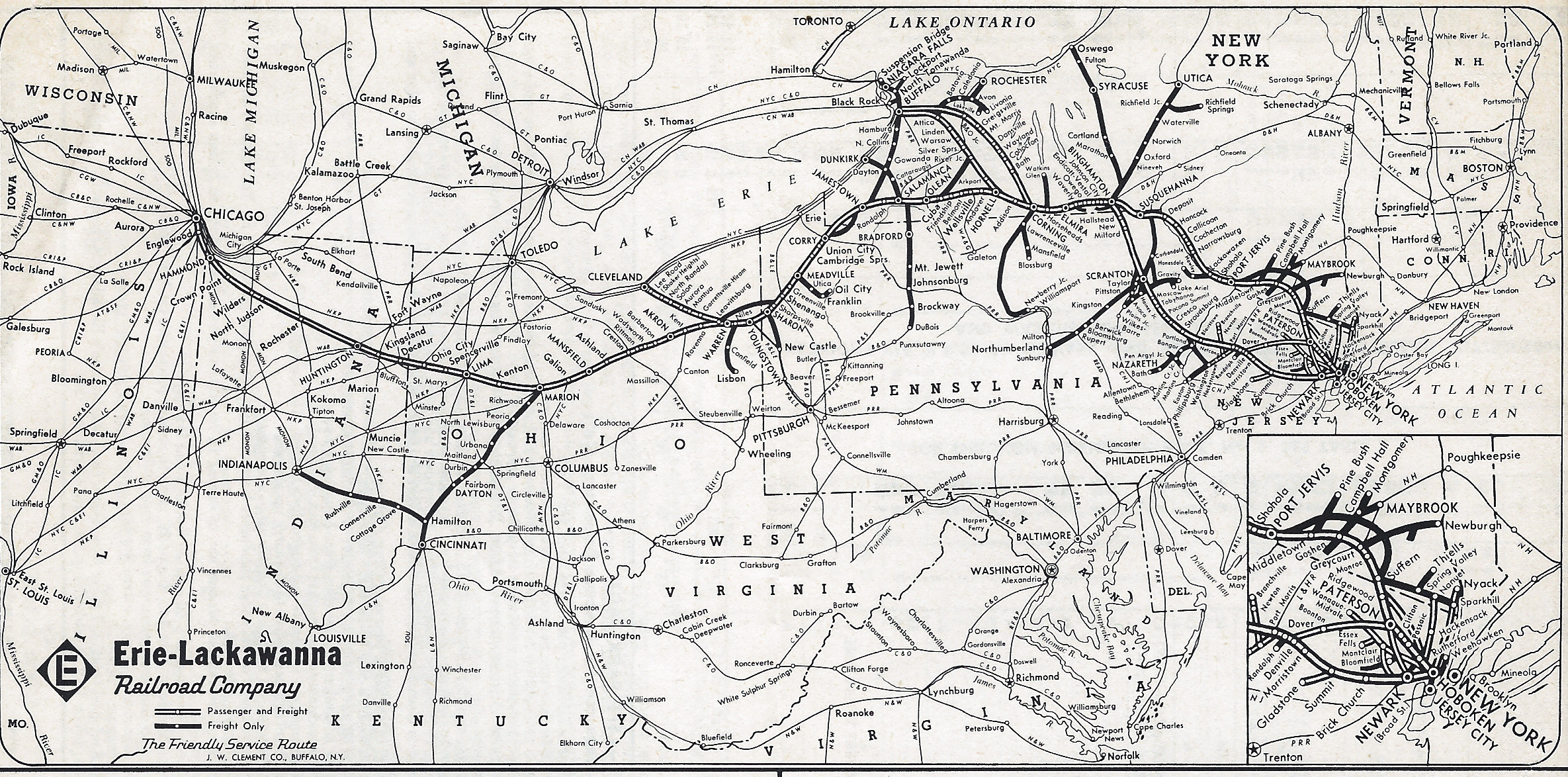 Erie Lackawanna Railroad Company system map